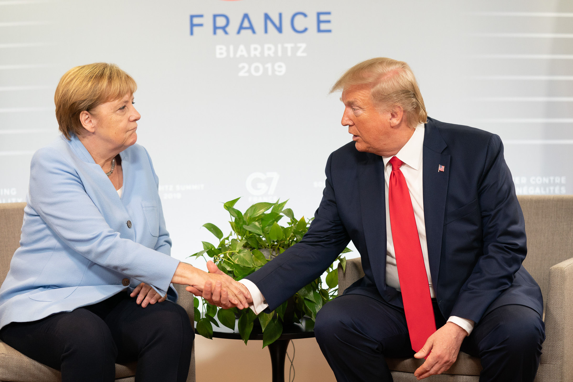 President Donald J. Trump participates in bilateral meeting with the Chancellor of the Federal Republic of Germany Angela Merkel at the Centre de Congrés Bellevue Monday, Aug. 26, 2019, in Biarritz, France, site of the G7 Summit. (Official White House Photo by Shealah Craighead)